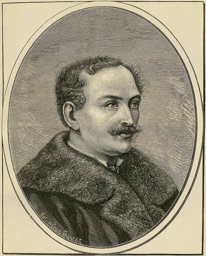 Odoevskiy Alexandr Ivanovich